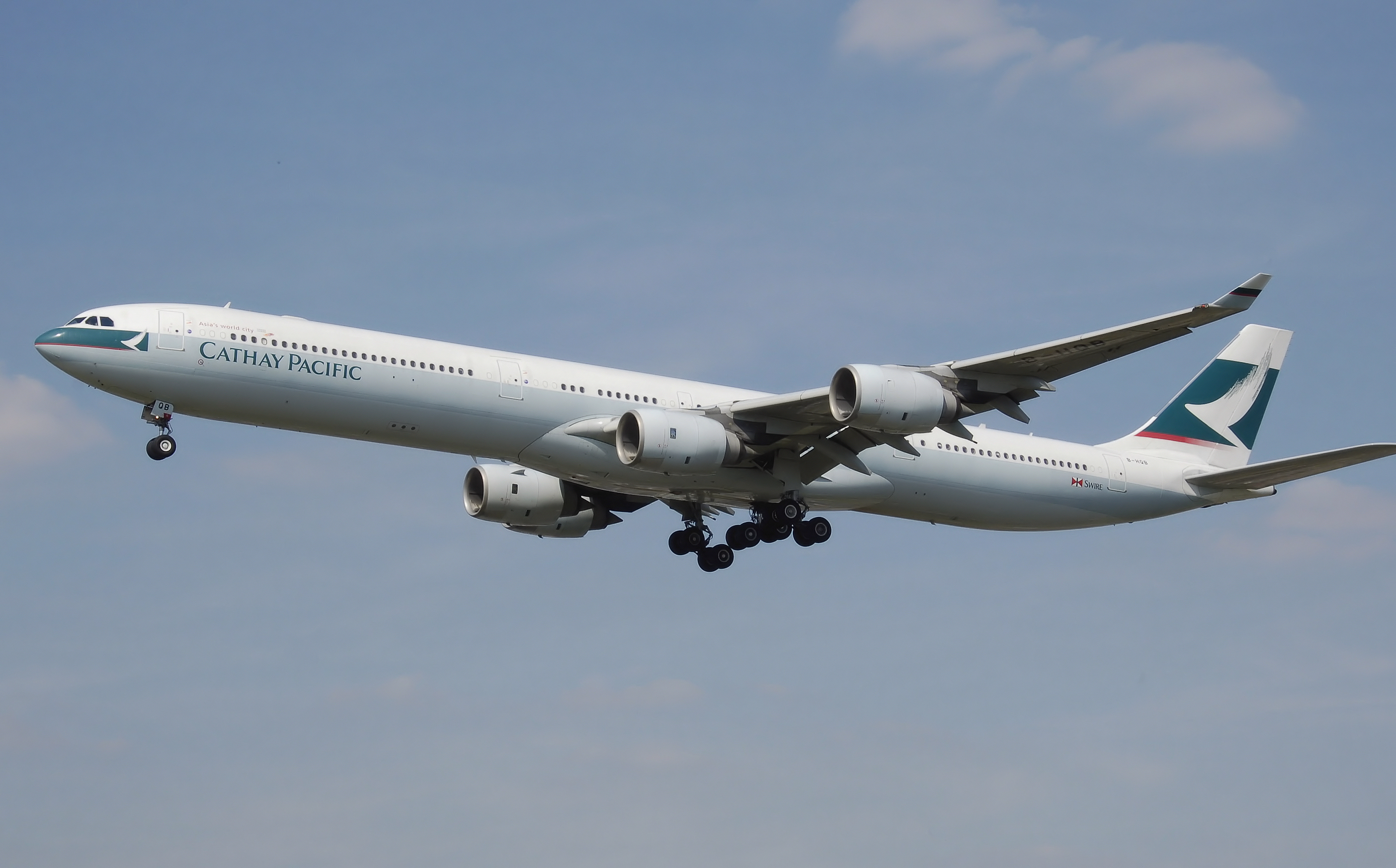 Cathay Pacific Airbus A340-600 (B-HQB) landing at London Heathrow Airport.